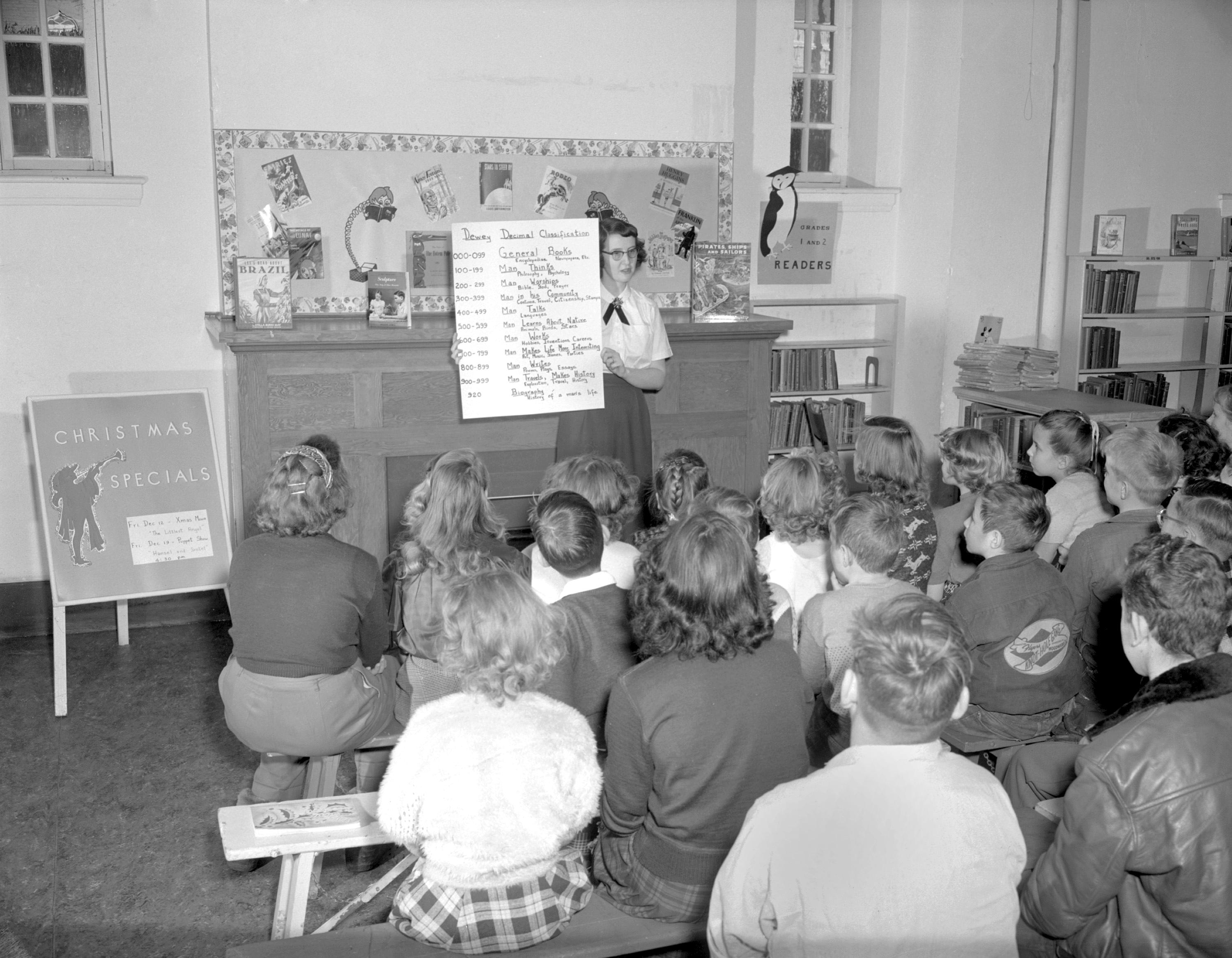 Edmonton Public Library. Public Affairs Bureau photograph, Provincial Archives of Alberta, PA460/1.